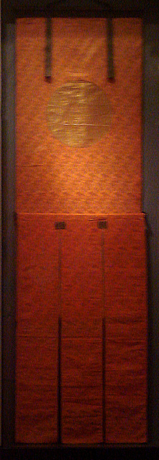 Imperial banner, used at Battle of Toba-Fushimi